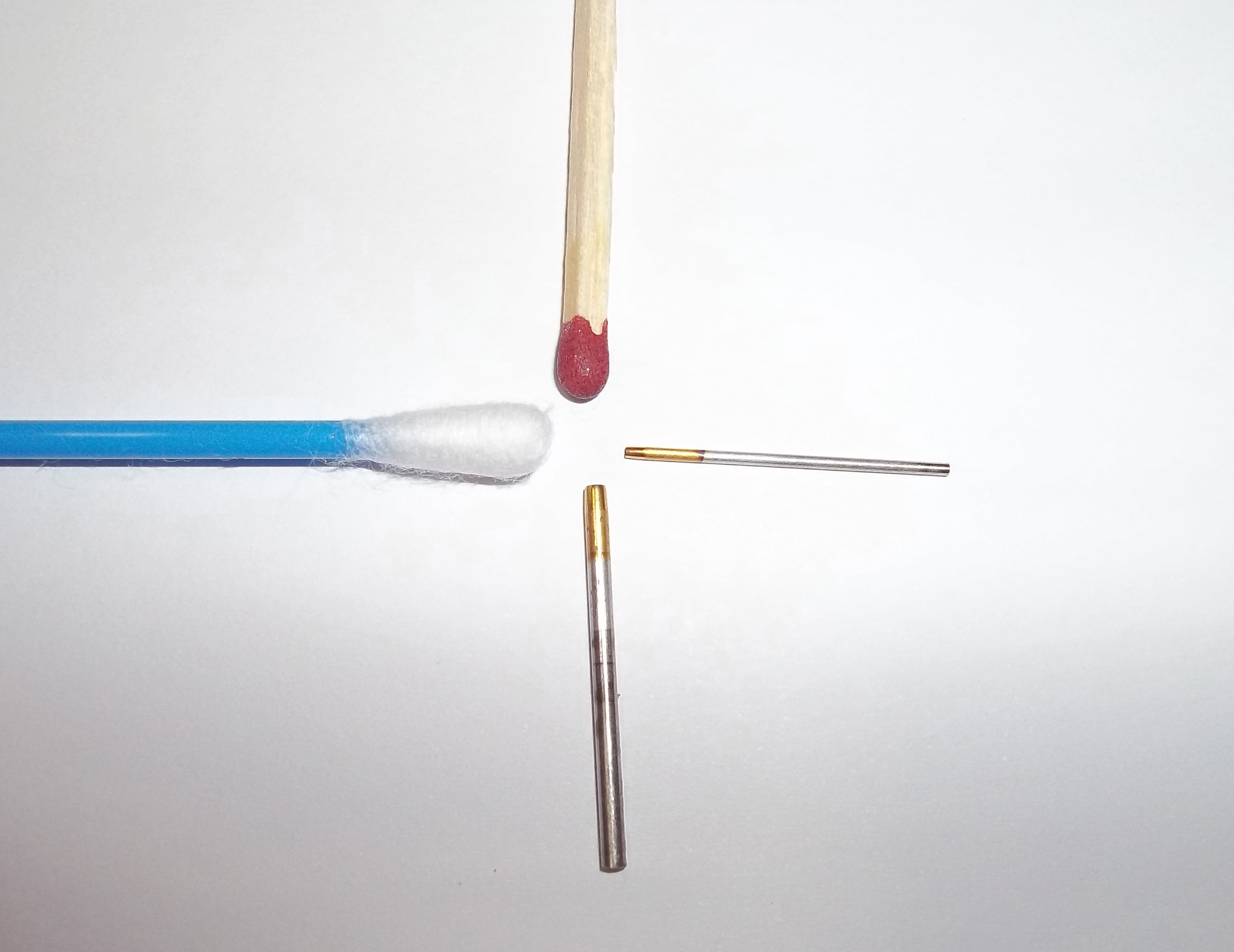 Two differently sized hypodermic needles for FUE hair transplantation in comparison to a match and a cotton bud.